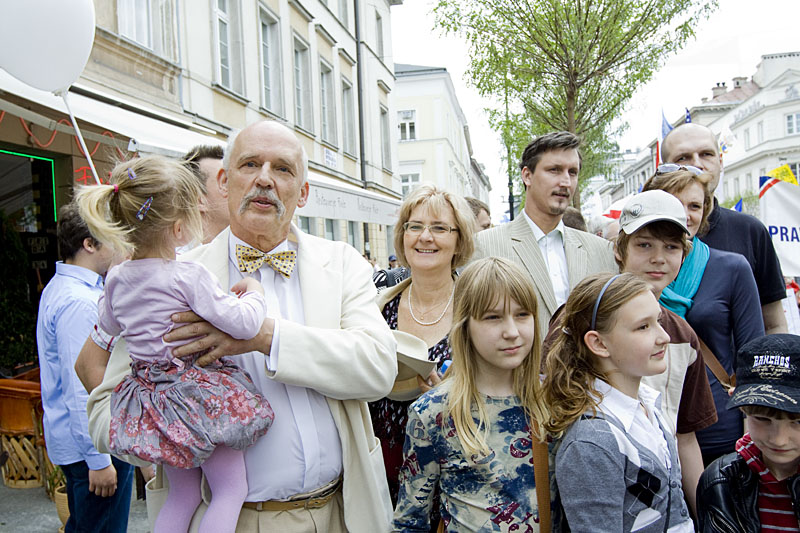 Janusz Korwin-Mikke and his family